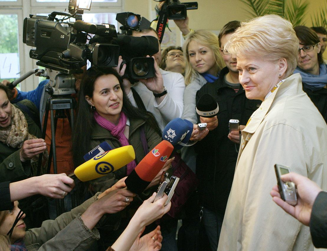 Presidential election of Lithuania, 2009-05-17. Dalia Grybauskaitė in voting station